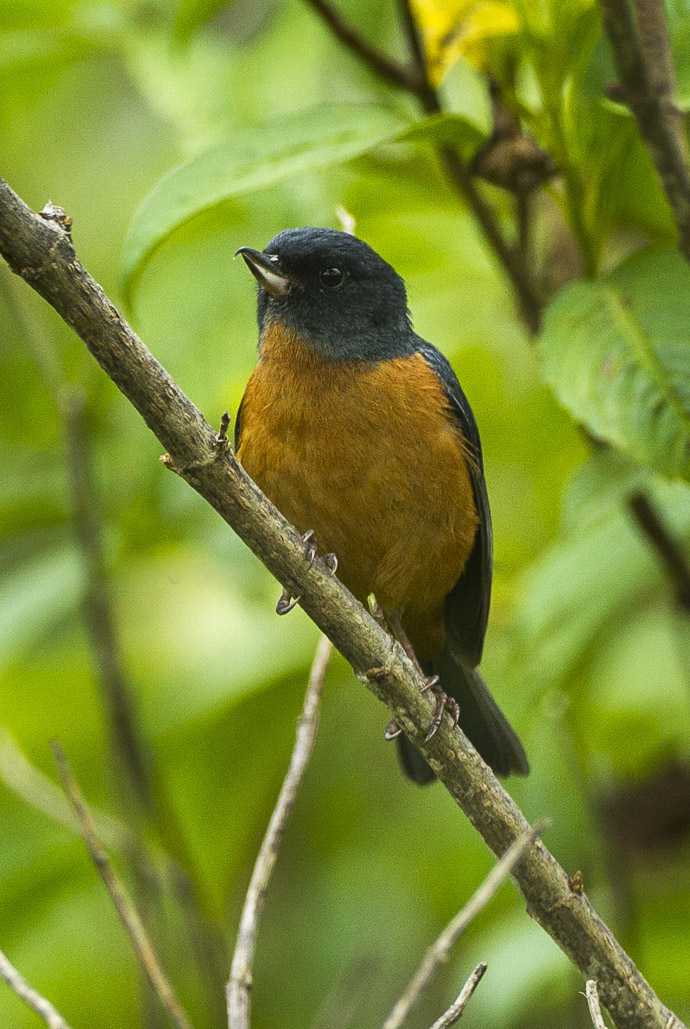 Cinnamon-bellied Flowerpiercer (Diglossa baritula) in Oaxaca, Mexico